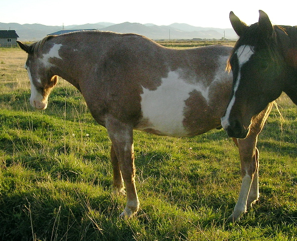 Paint horse that seems to have both frame overo and sabino overo patterns